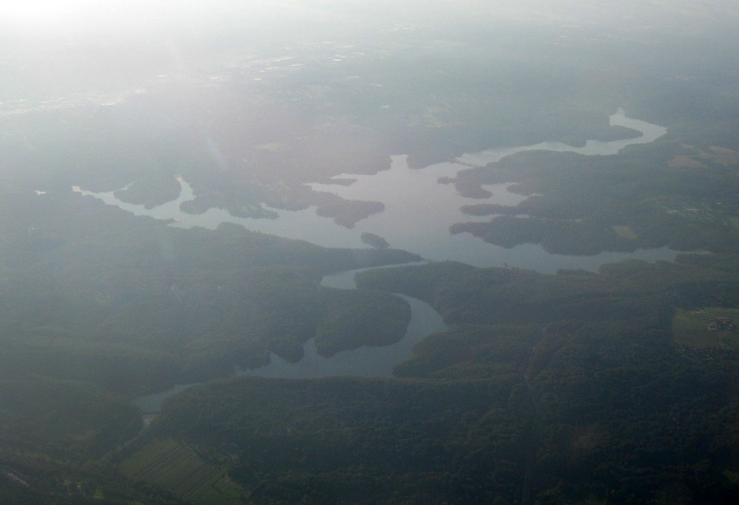 Oblique air photo of Loch Raven Reservoir, Maryland, facing northwest. August 2010.